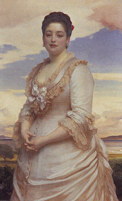 Hannah de Rothschild (1851 - 1890) Painting by Frederic Leighton, 1st Baron Leighton. In public domain by virtue of age.